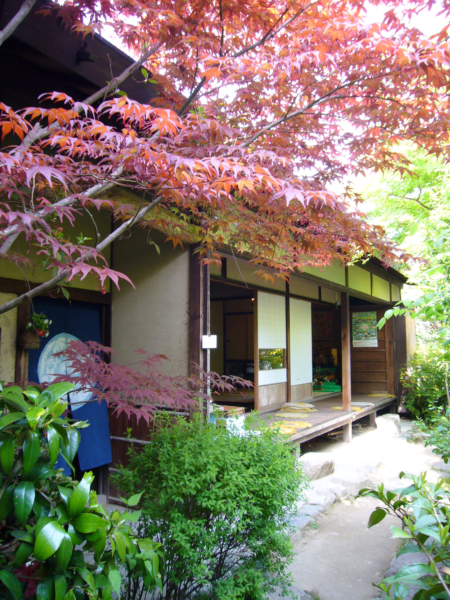 Japan Toy Museum in Himeji, Hyogo prefecture, Japan.